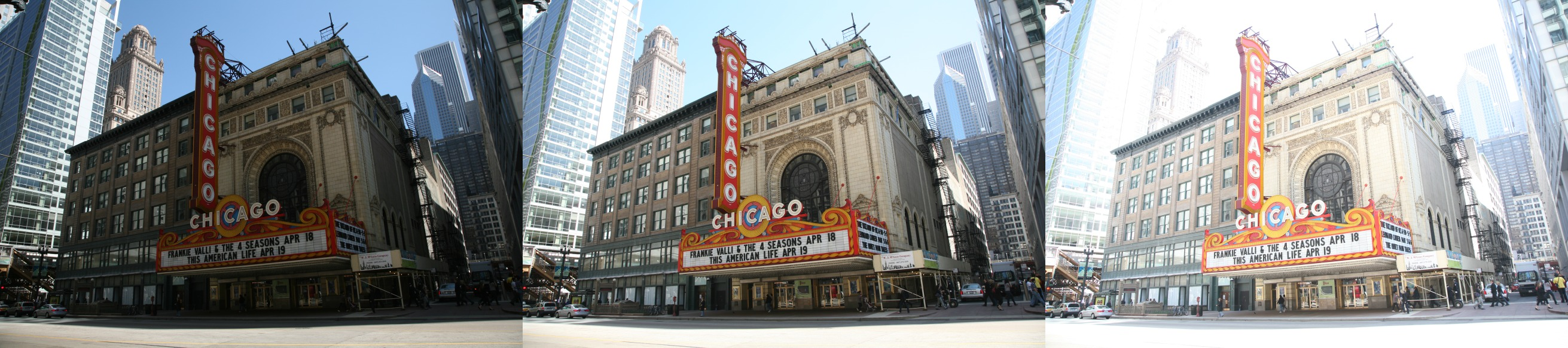 Chicago Theatre. Raw frames for File:Chicago_Theatre_blend.jpg.